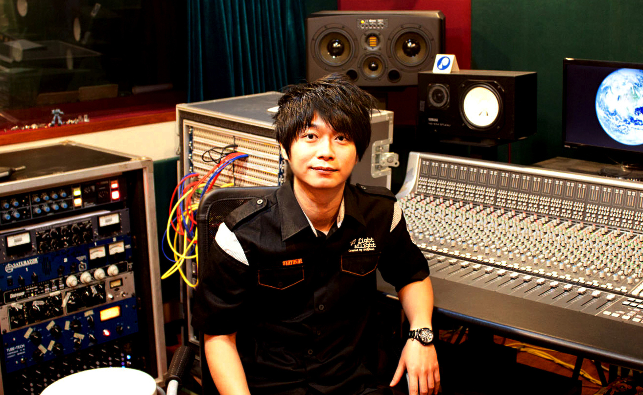 JAY